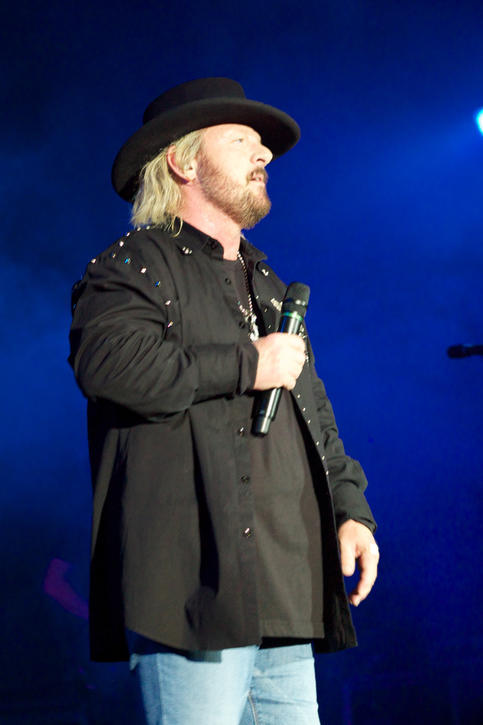 Donnie Van Zant, vocalist of 38 Special, performing live at Simpleman 2011.